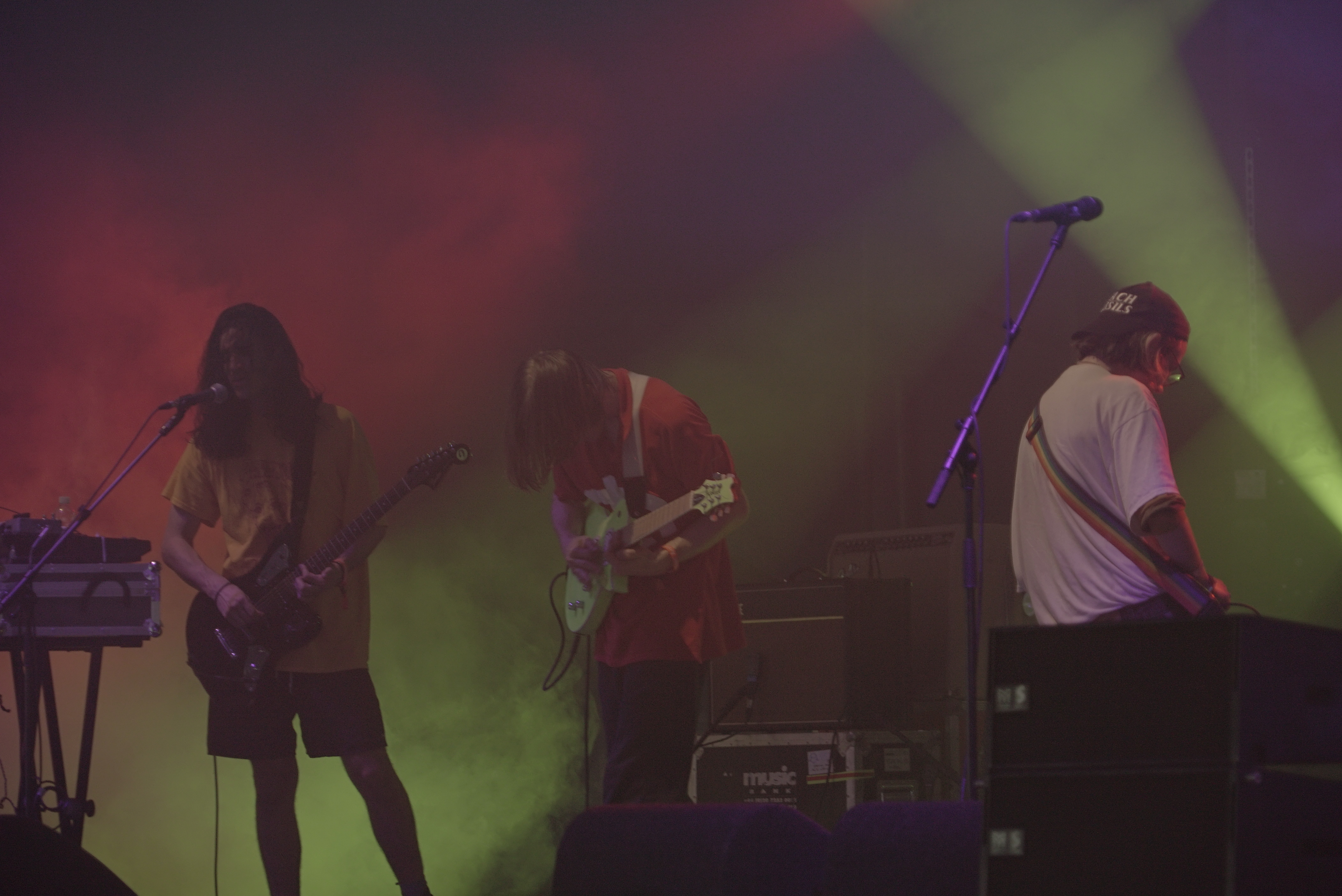 DIIV performing in the Crack tent at Field Day 2016